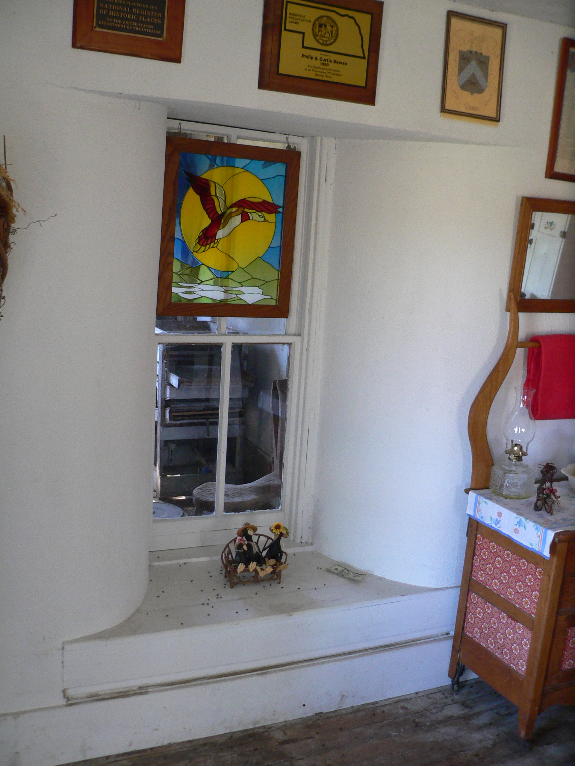 Interior of William R. Dowse House, located southwest of Comstock in Custer County, Nebraska. The sod house was built in 1900, and is listed in the National Register of Historic Places. It is now open as a museum. The window in the photo is in the south wall of the kitchen; it leads to a more recent enclosed porch. Note the thickness of the wall; for scale, a United States five-dollar bill was placed on the right side of the window seat.